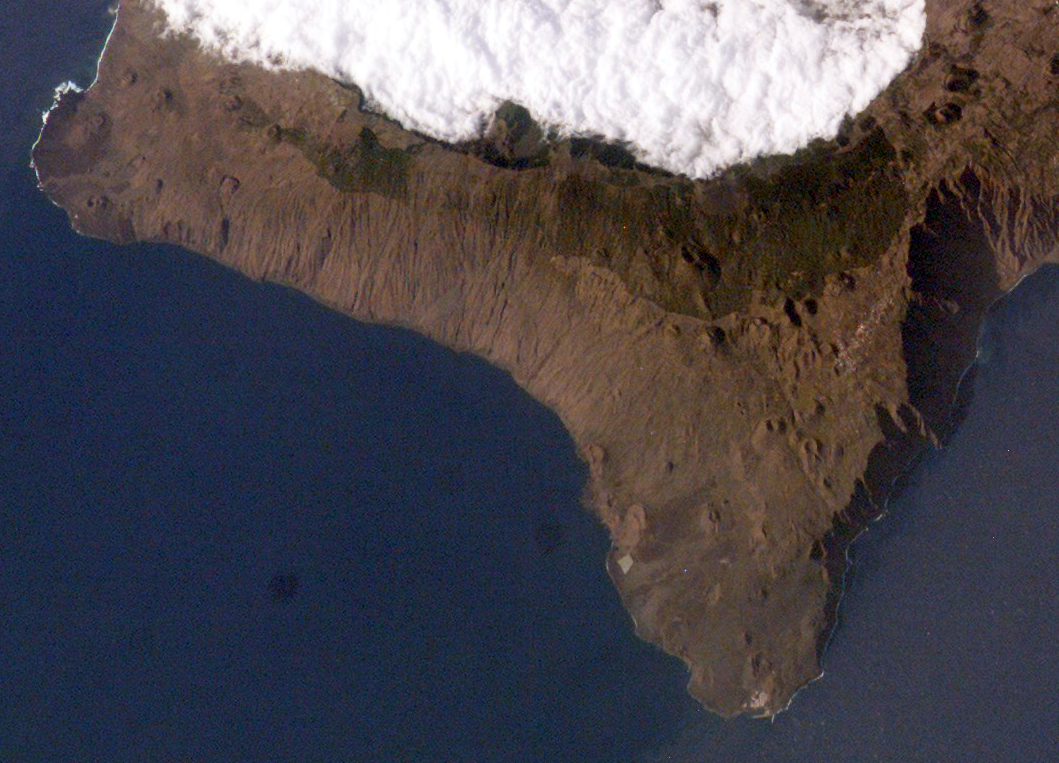 SAT picture of El Hierro Island (WEST area / El Pinar municipality) by NASA (Canary Islands, Spain)